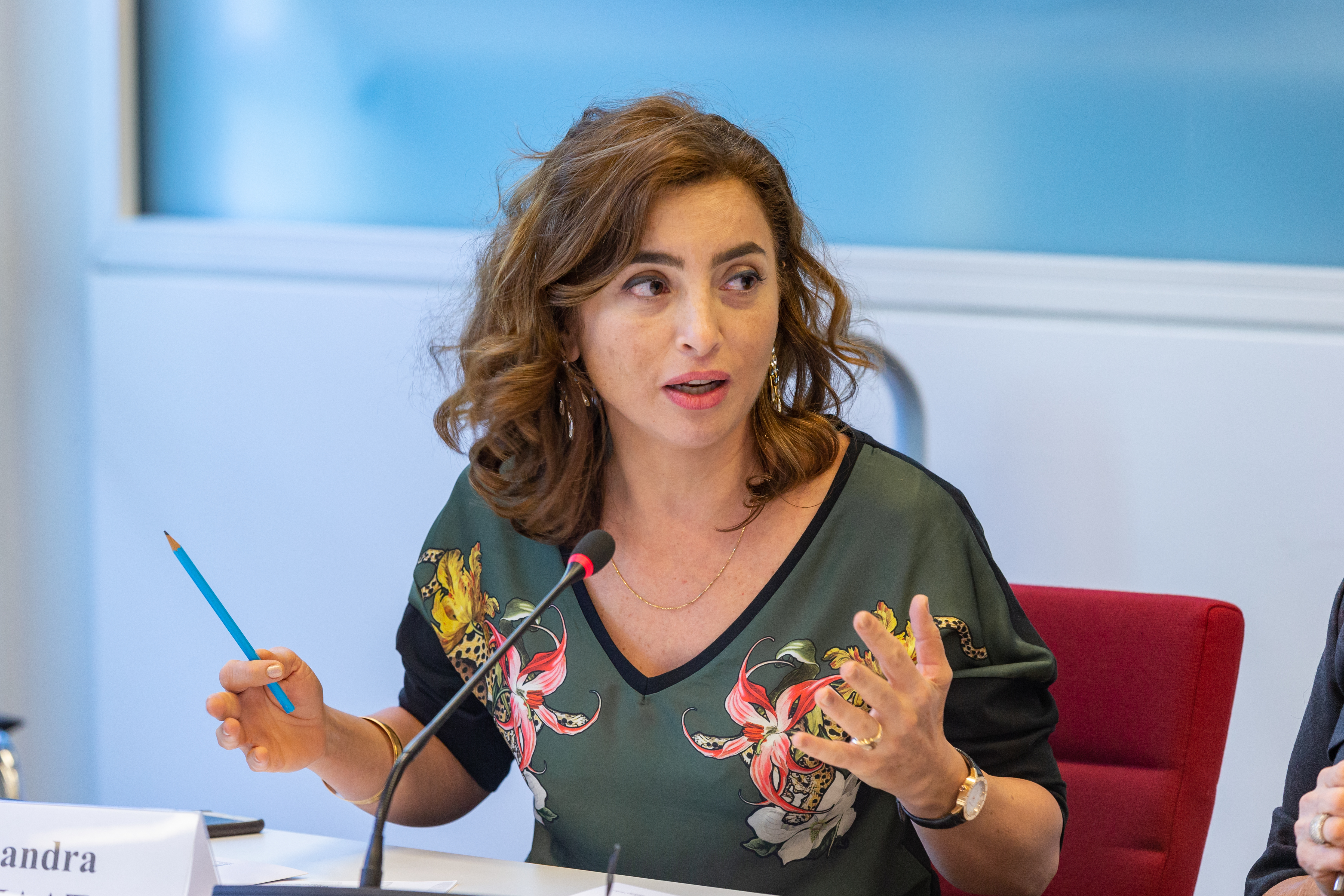 Sandra Nashaat Film Director, Cairo, Egypt, speaks at the “Empowering Women in the Creative Industries” panel discussion. During the discussion, participants shared experiences, best practices and ideas on the empowerment of women in the creative industries, closing gender gaps, and creating a level playing field for women creators. The event was held on the sidelines of the Assemblies of WIPO Member States, which met from September 24 to October 2, 2018. Copyright: WIPO. Photo: Emmanuel Berrod. This work is licensed under a Creative Commons Attribution-ShareAlike 3.0 IGO License.